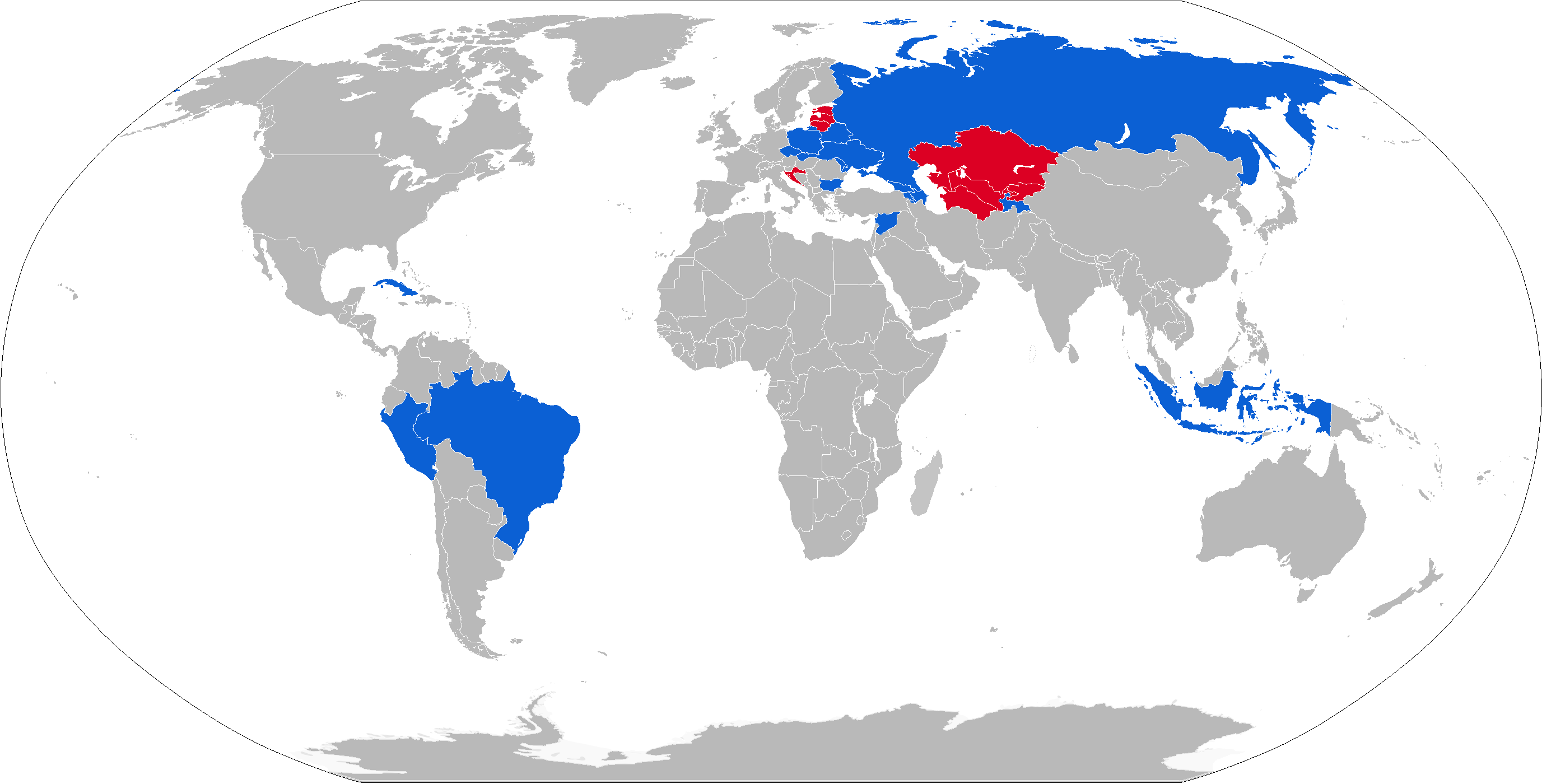 Map with 9K114 operators in blue and former operators in red